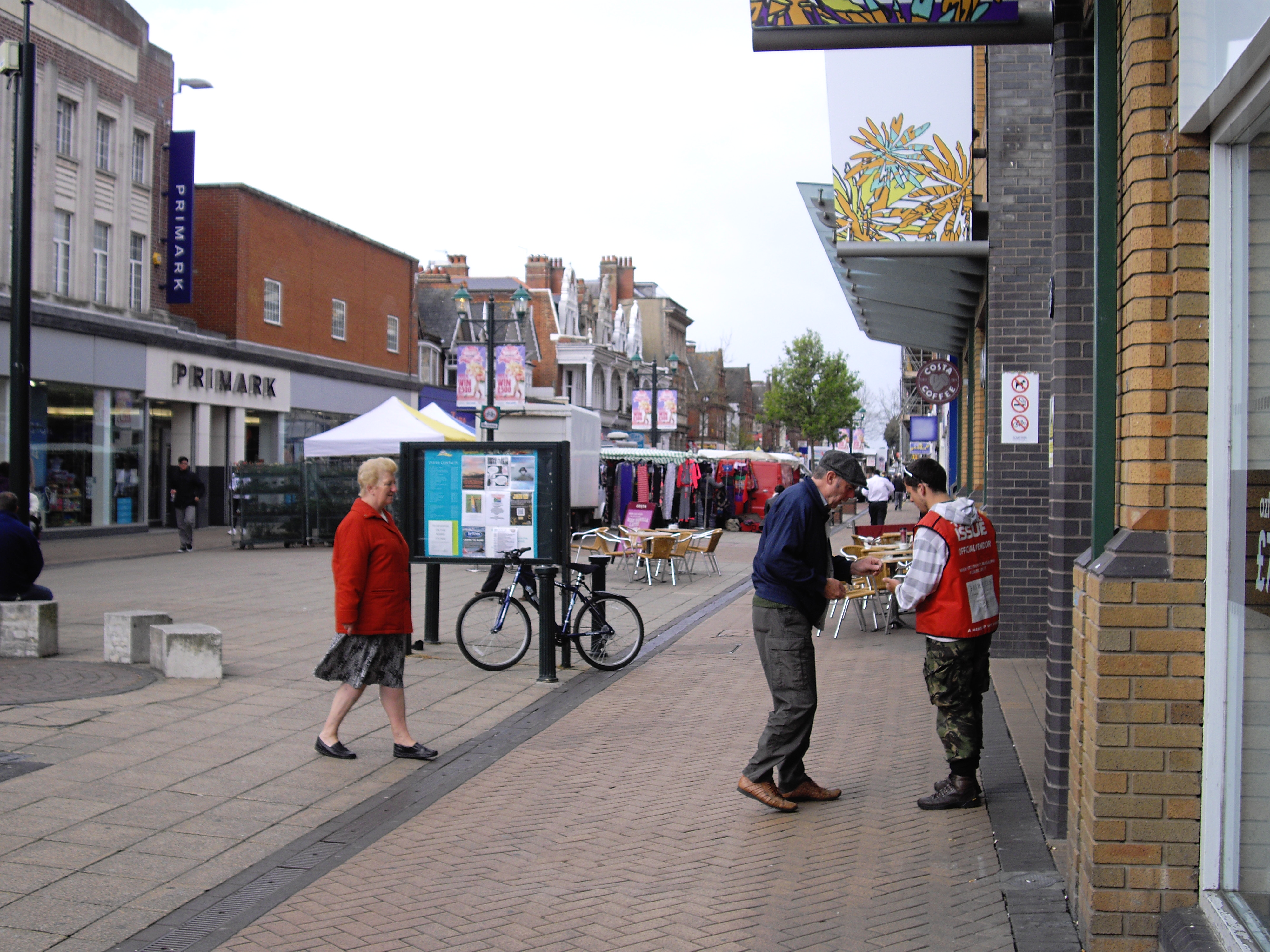 Man buying a Big Issue magazine from John Locke in Boscombe, Dorset, England.